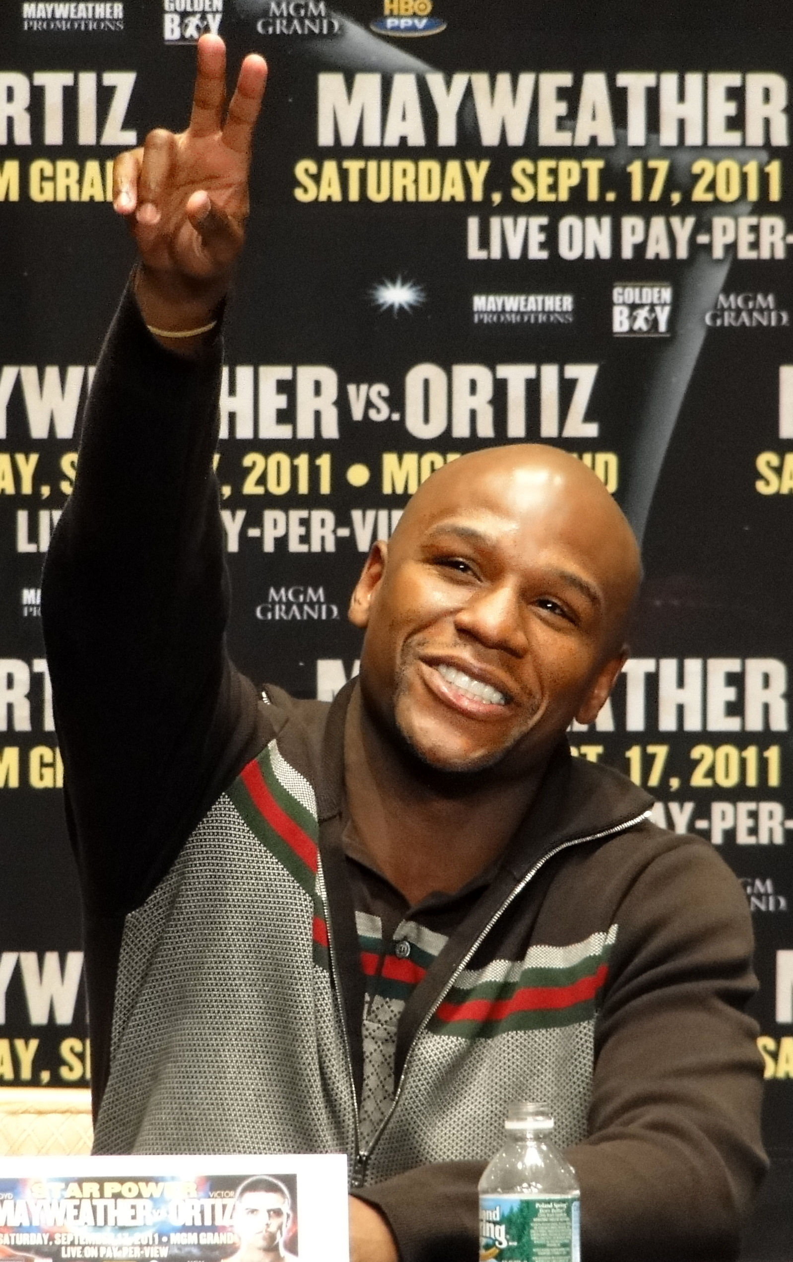 Floyd Mayweather during a press conference for the fight against Victor Ortiz at the Hudson Theatre on June 28, 2011.